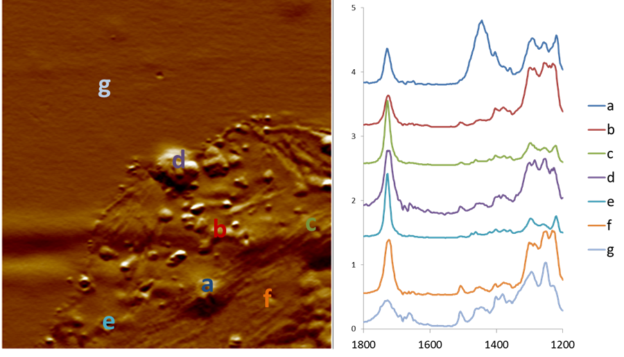 Example of AFM-IR nanospectroscopy on a laser printer toner particle showing spatially resolved chemical analysis.